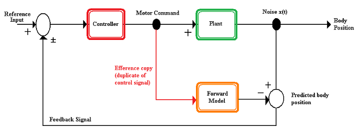 A schematic of an internal model.